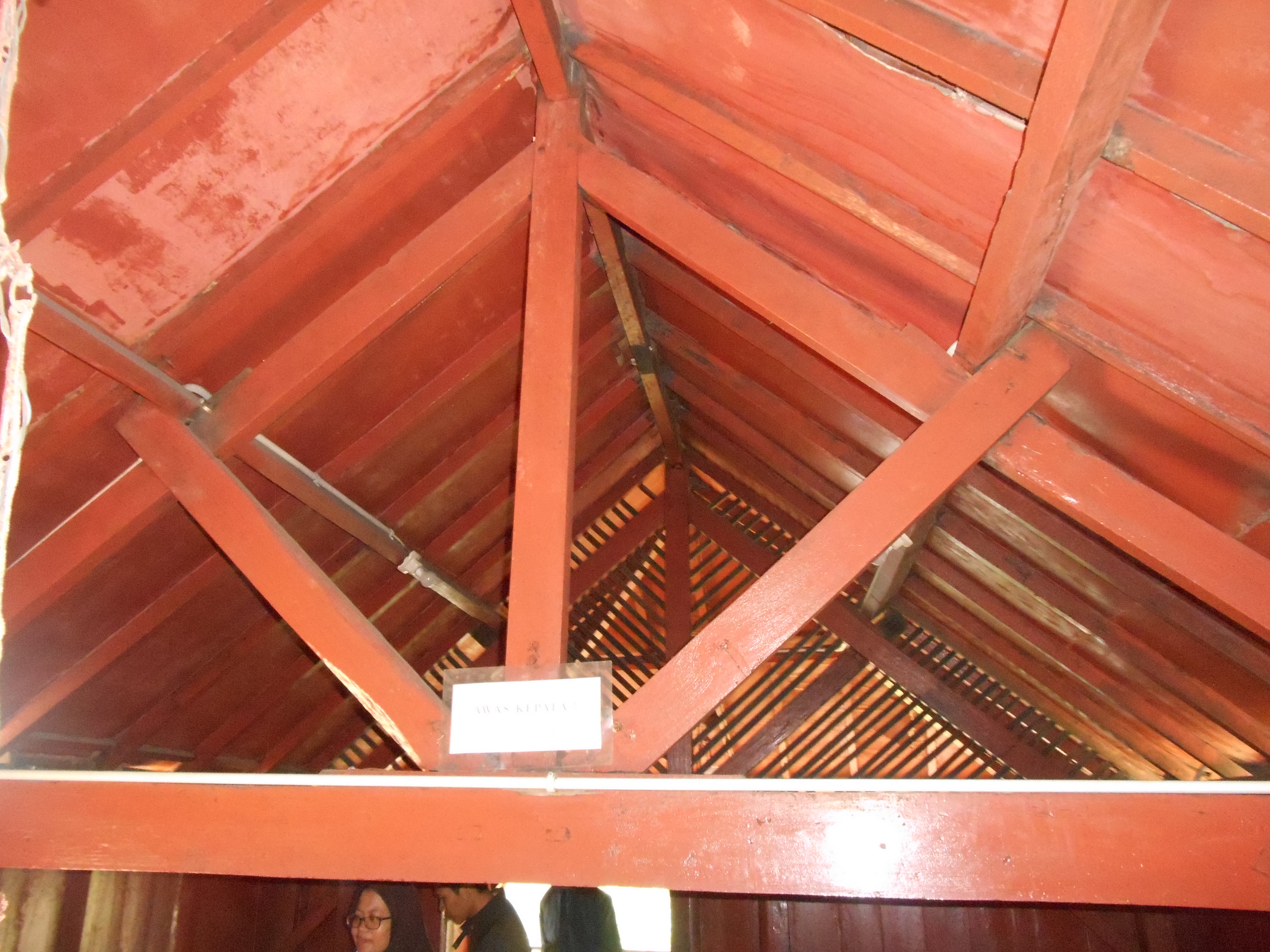 Konstruksi atap rumah Betawi Pesisir